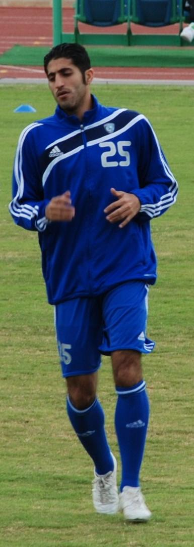 Majed Al-Marshedi is a football player who currently plays as a defender for Al-Hilal. He won Best Player in the 2008-2009 19th GCC.